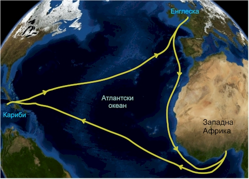 Map showing the route of Whydah Gally before she was taken by pirates.